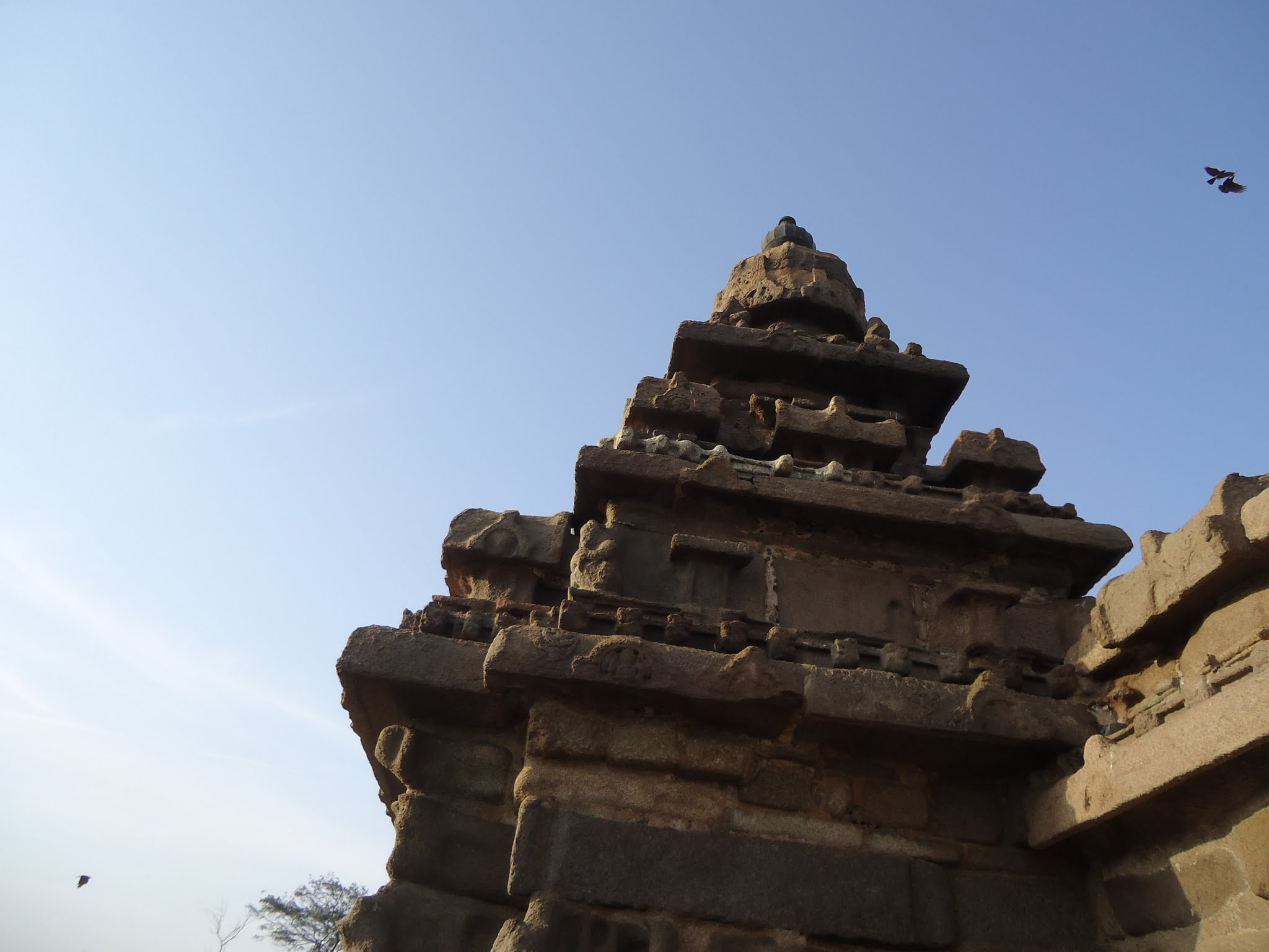 Shore Temple